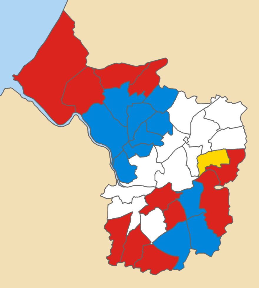 Results of the 1984 local elections in Bristol Colours: Conservative Labour SDP-Liberal Alliance No election in 1984